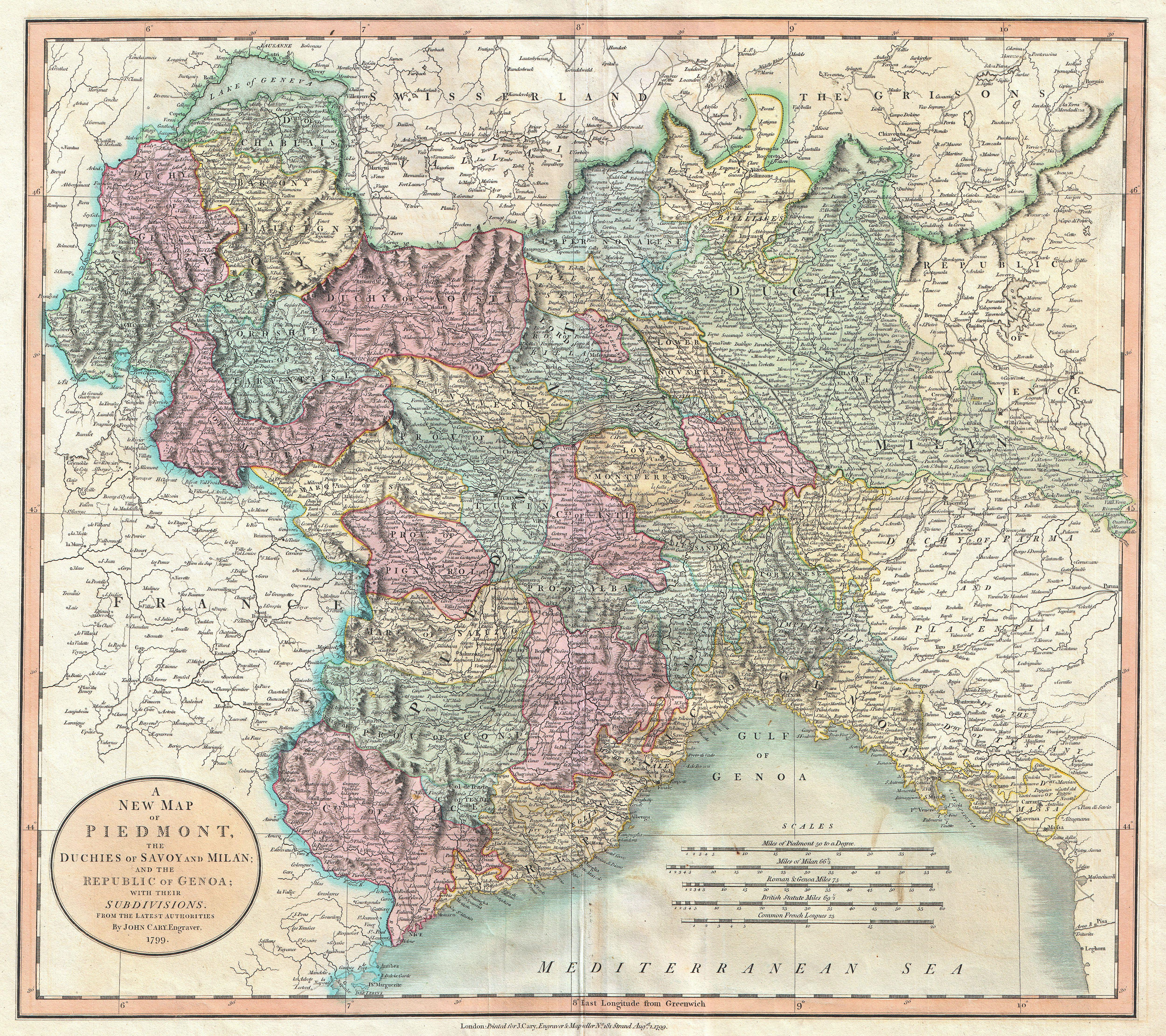 An exceptional example of John Cary’s important 1799 map of Piedmont. Extends from Lake Geneva in the north southward as far as Nice and eastward as far as Parma, Italy. Predates the Italian solidarity movement of the mid 19th century. Includes the old Italian Duchy of Milan, the Province of Turn, they city-state of Nice, and the Republic of Genoa, among others. Color coded according to district. All in all, one of the most interesting and attractive atlas maps of Piedmont to appear in first years of the 19th century. Prepared in 1799 by John Cary for issue in his magnificent 1808 New Universal Atlas .